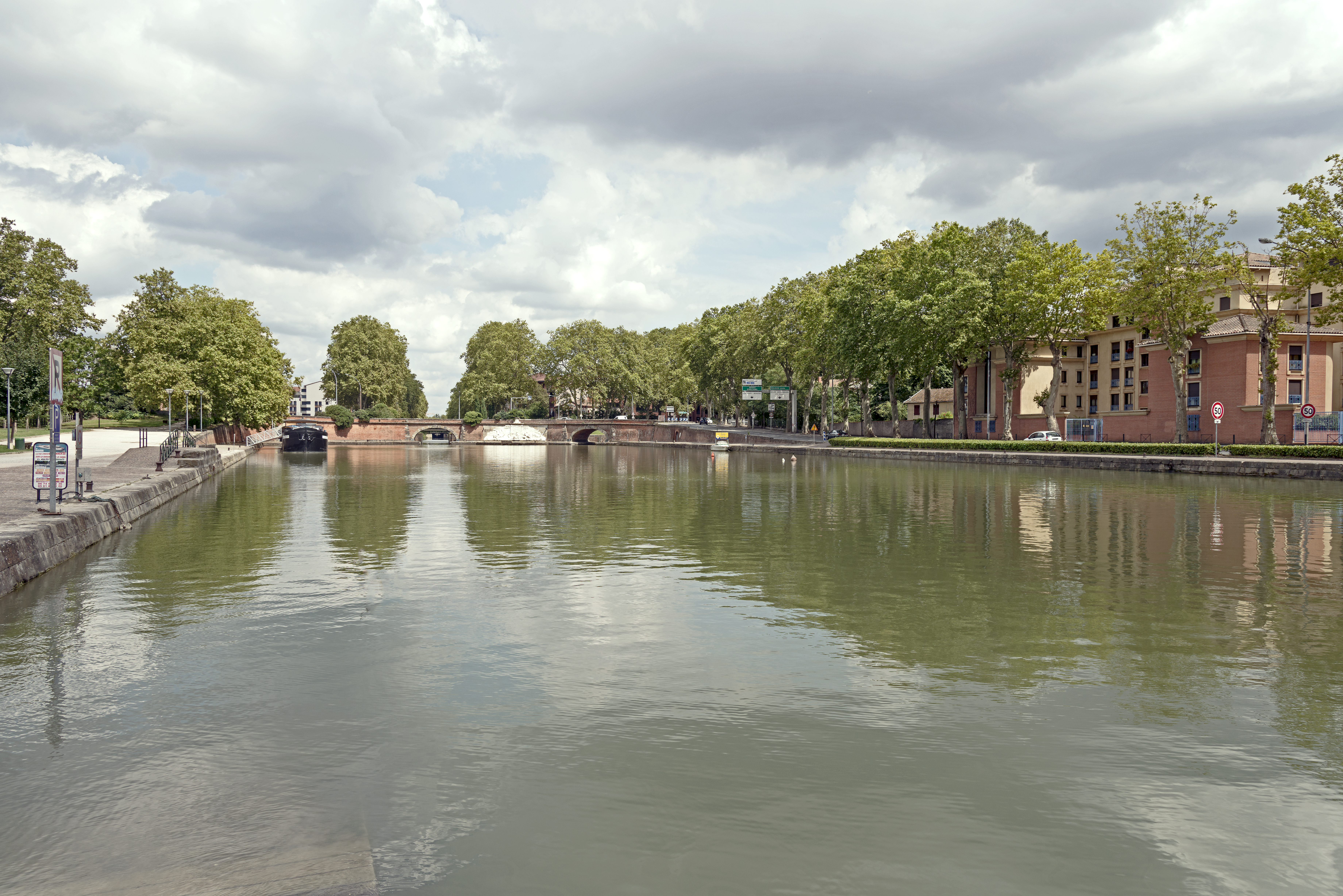 The Port de l'Embouchure in Toulouse. In the center, the origin of Canal du Midi and Bas Relief by François Lucas.